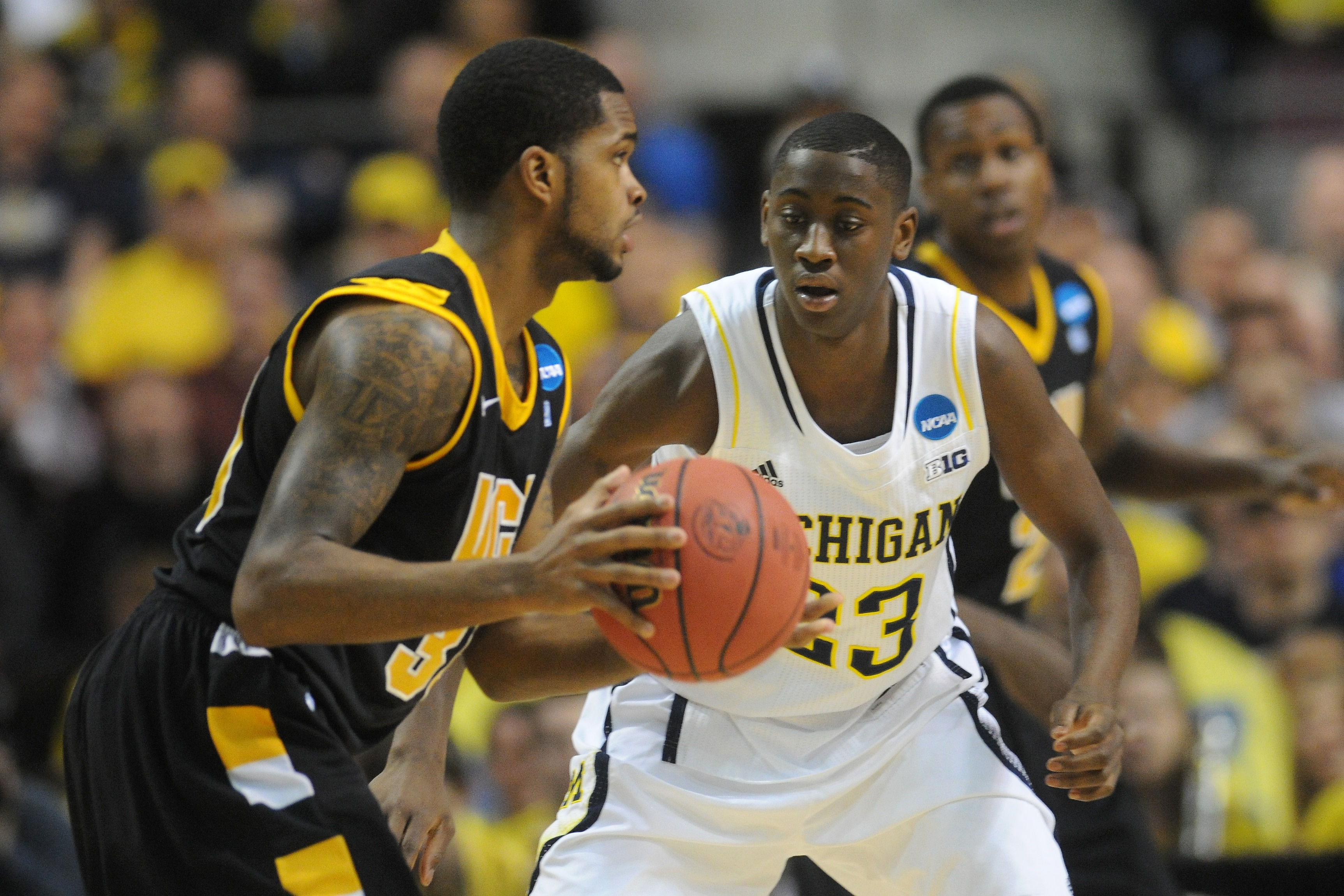 Caris LeVert of the w:2012–13 Michigan Wolverines men's basketball team